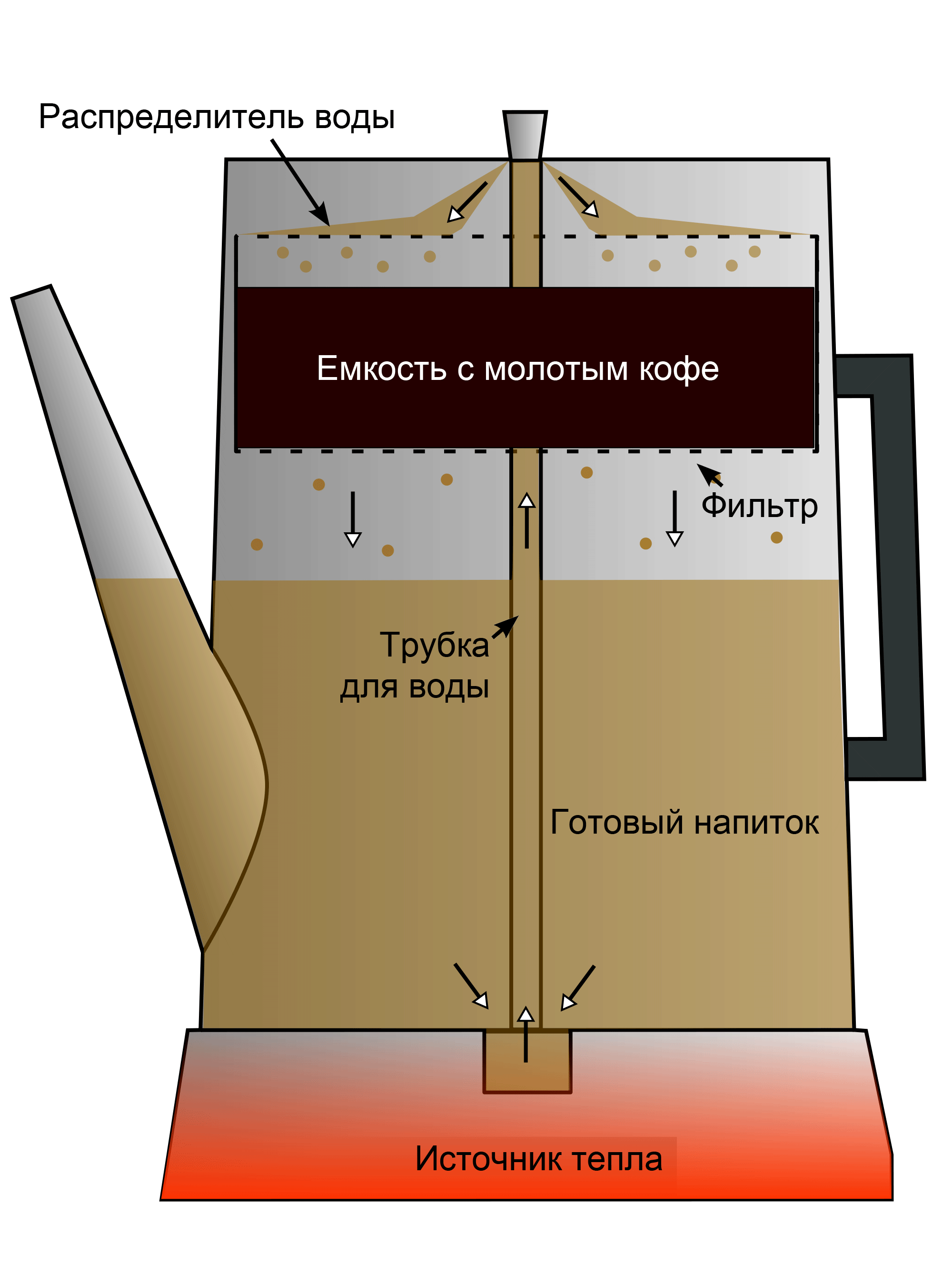 Simple diagram of a coffee percolator